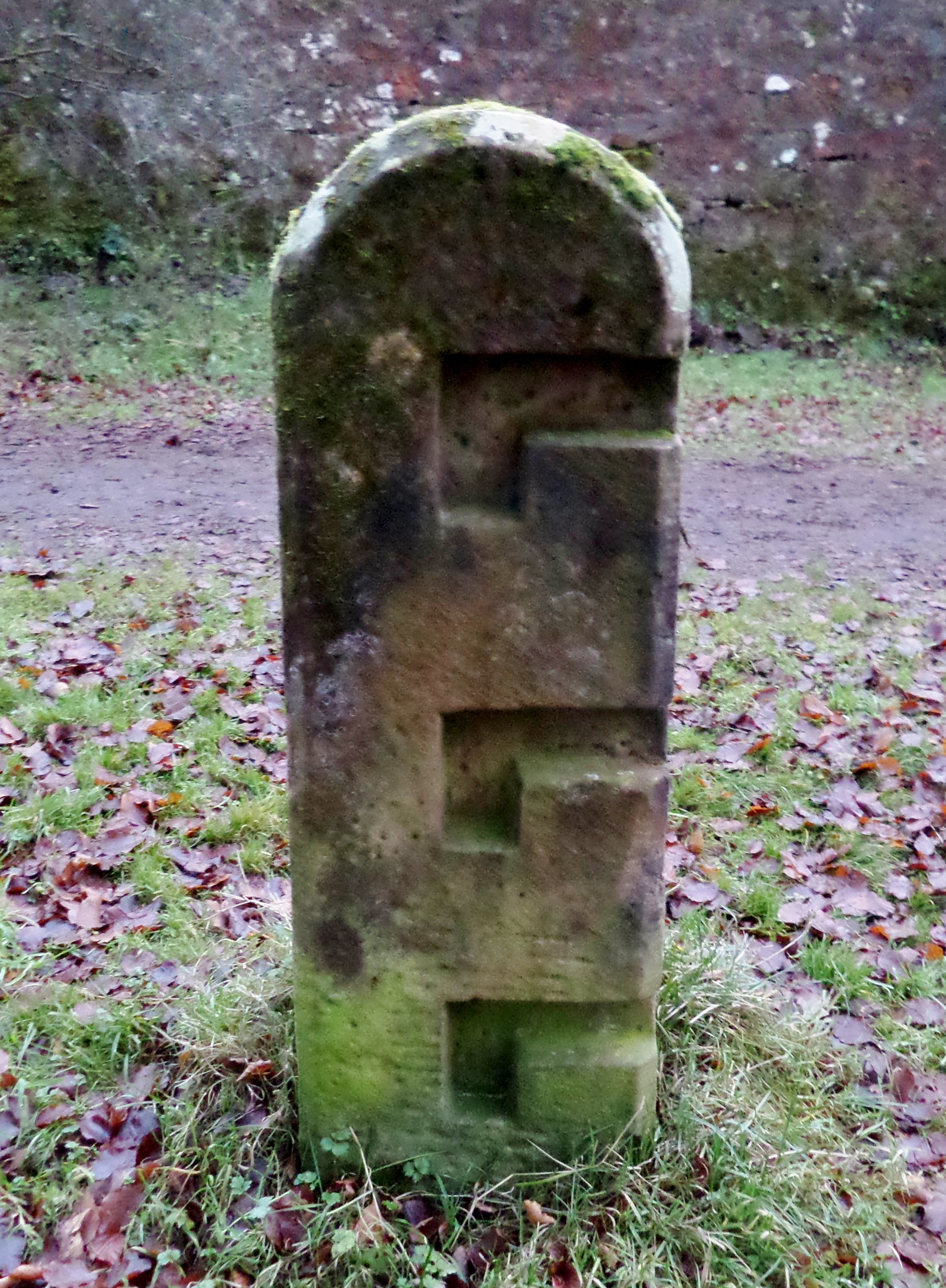 Slip gate pier with spar grooves, Greenbank Garden, Scotland.